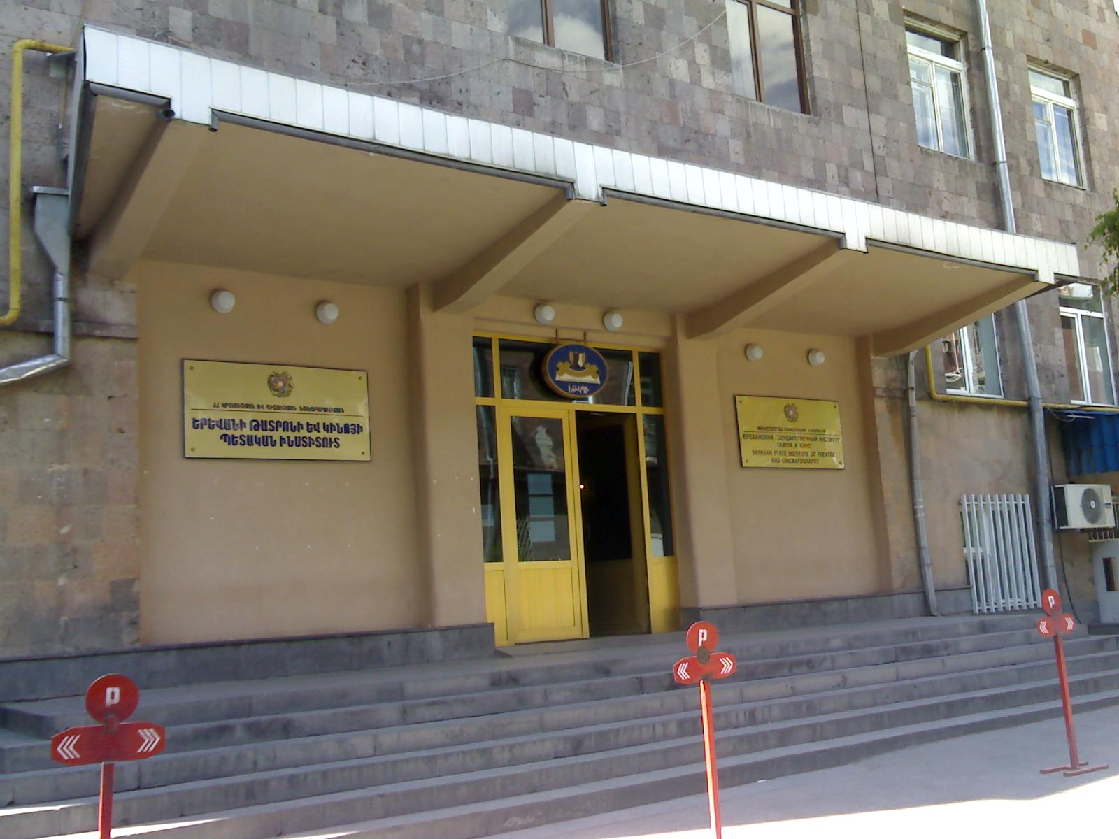 Yerevan State Institute Of Theater And Cinematography